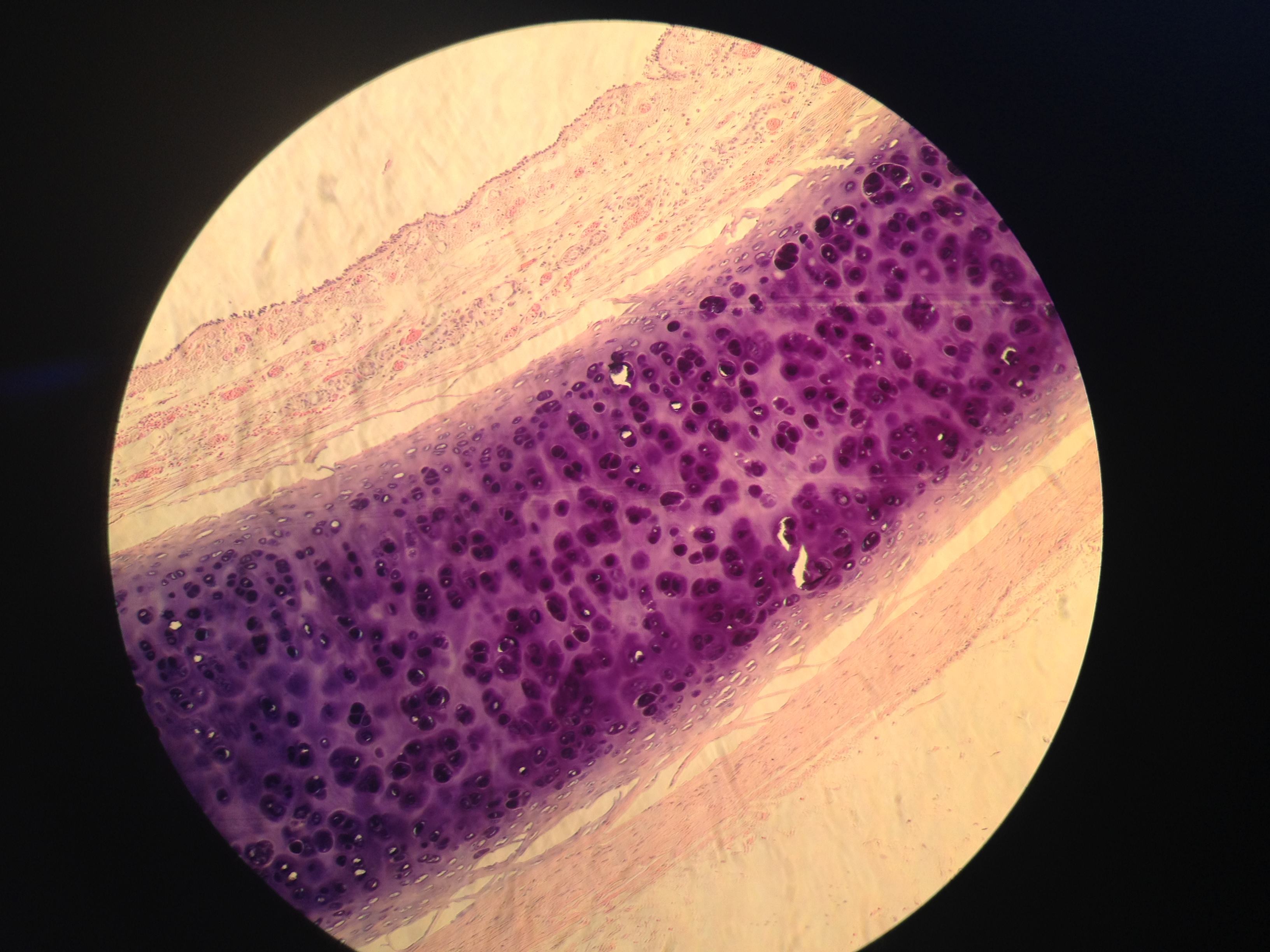 10 X Photograph of an histological sample of trachea coloured with hematoxylin and eosin.